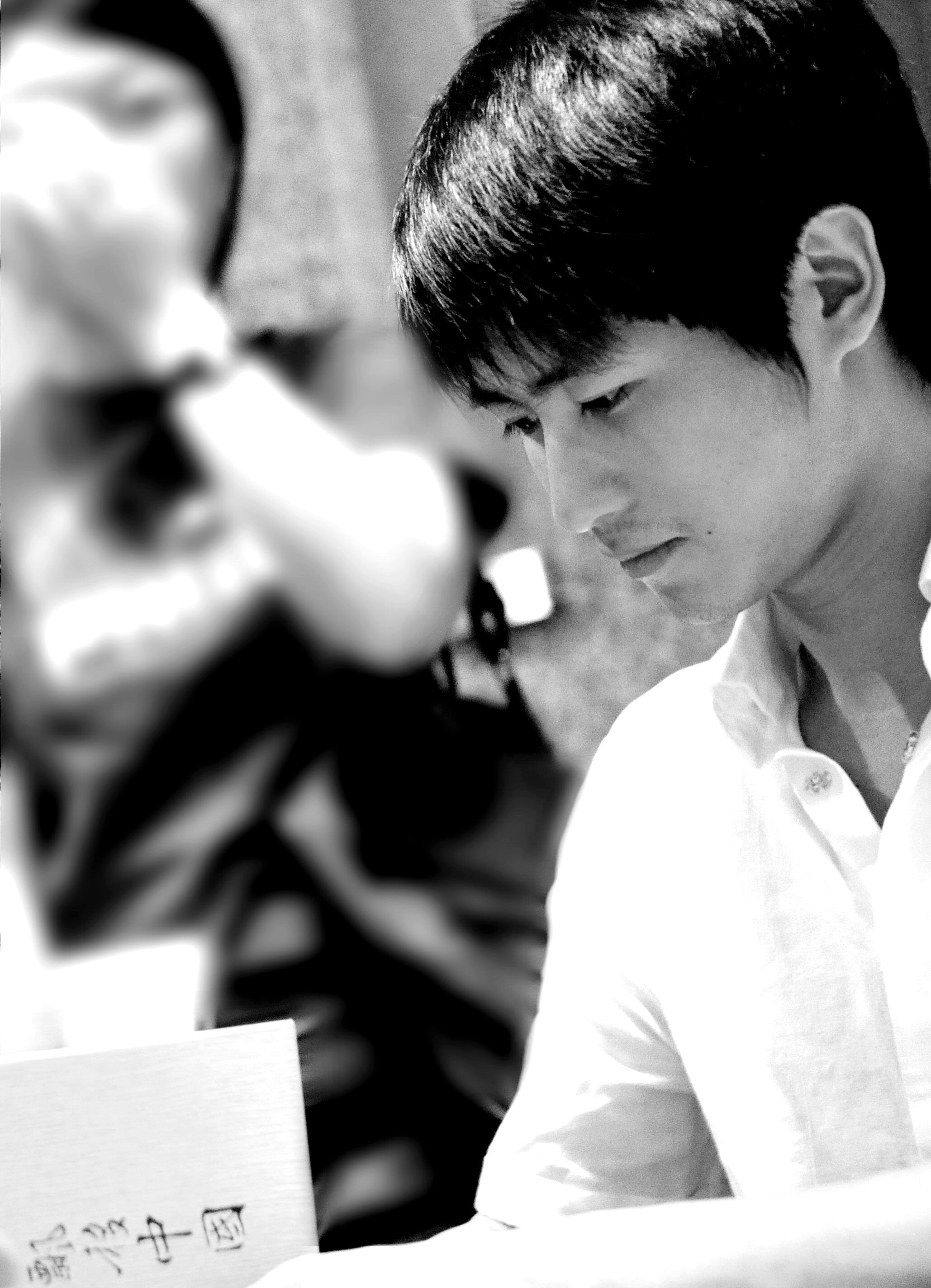 Han Han at Hong Kong Book Fair 2010